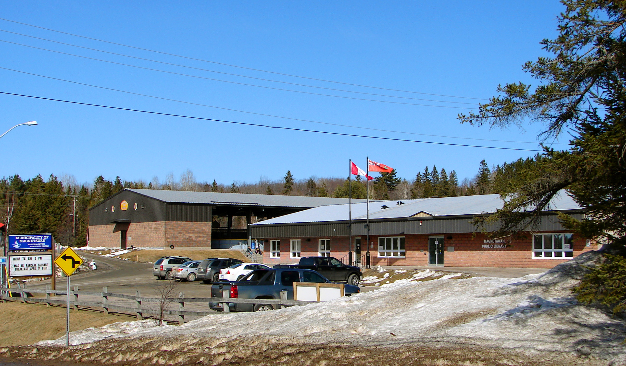 Municipal office and library of Magnetawan, Ontario, Canada